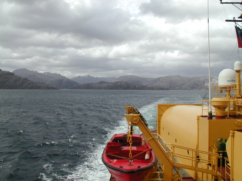 The following is the author's description of the photograph quoted directly from the photograph's Flickr page. "Estrecho de Magallanes, Chile "